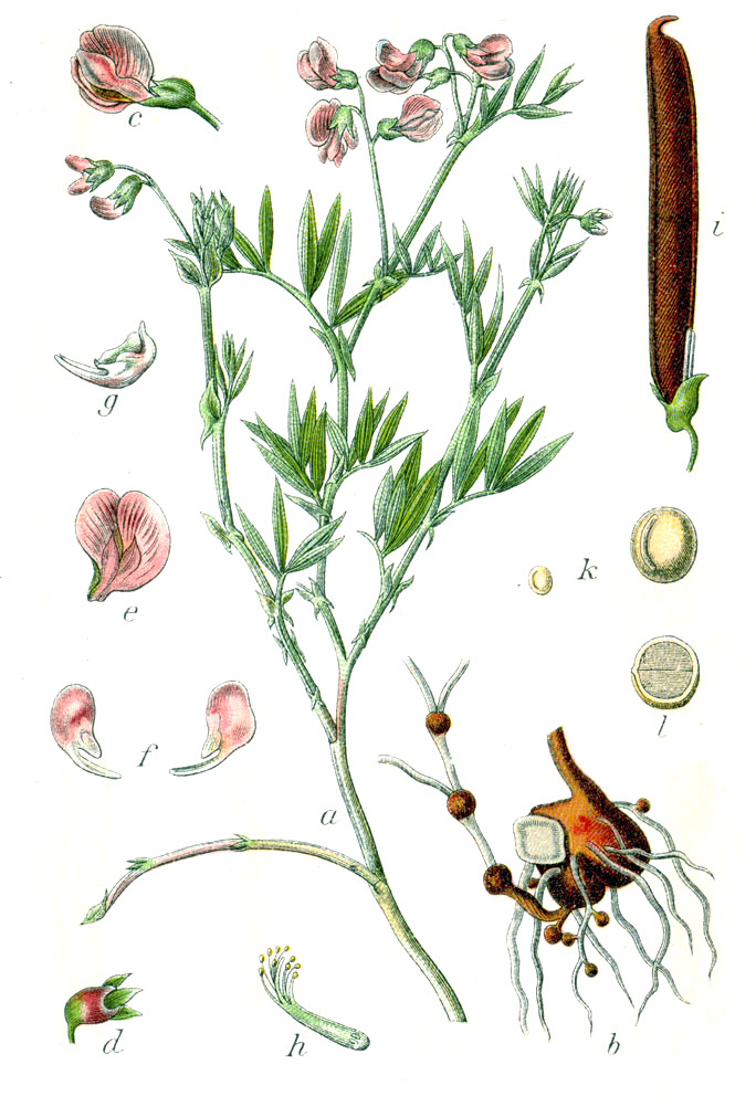 Lathyrus linifolius subsp. montanus (Bernh.) Bässler, syn. Pisum montanum (L.) E.H.L.Krause Original Caption Berg-Erbse, Pisum montanum